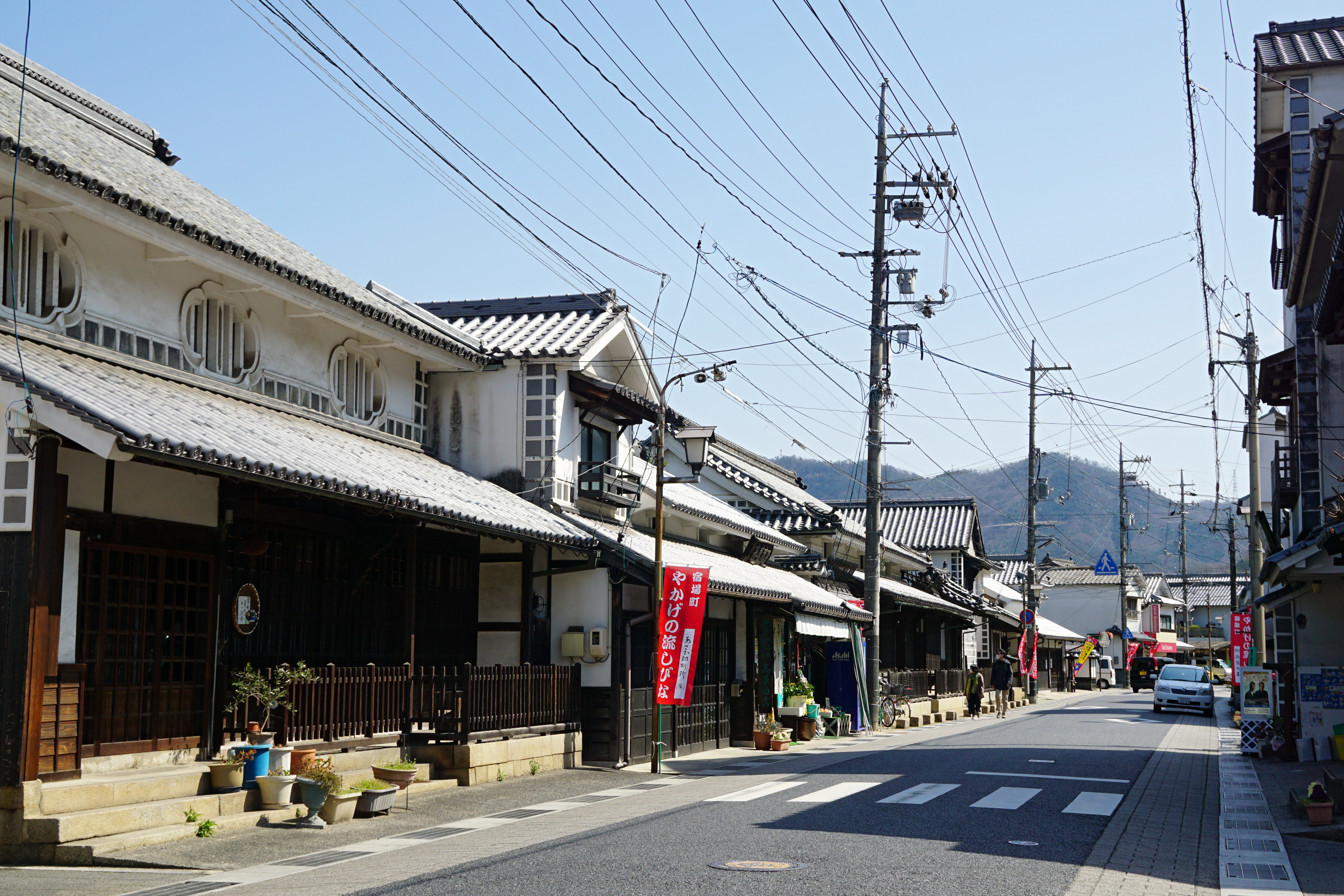 At Yakage-juku in Yakage, Okayama prefecture, Japan